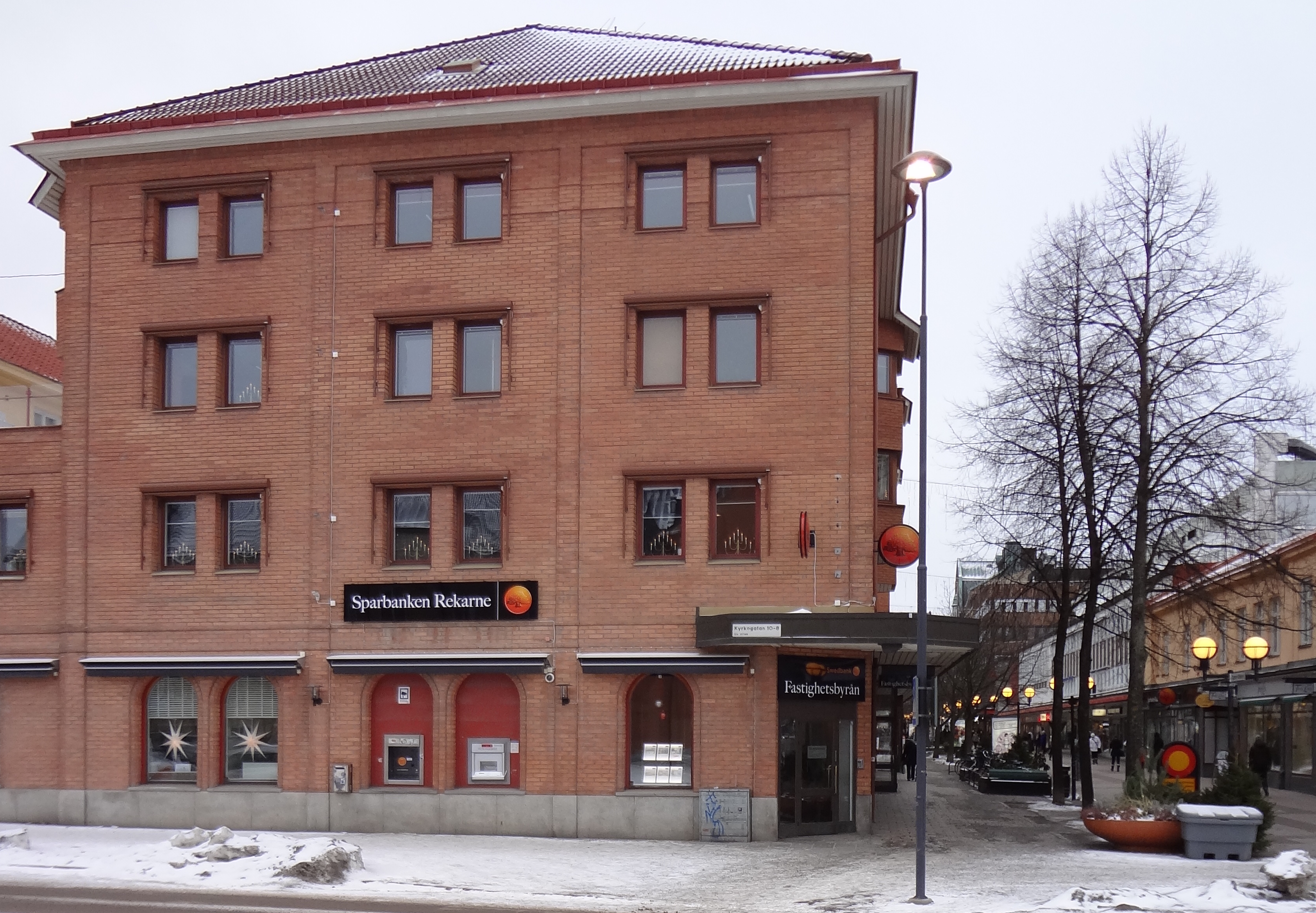 Eskilstuna Rekarne sparbank